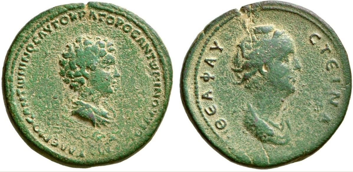 Picture of a coin depicting Galerius Antoninus; left - Son of Antoninus Pius; right, his mother, Faustina Major